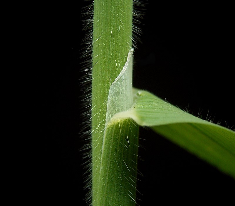 Ligula of a grass